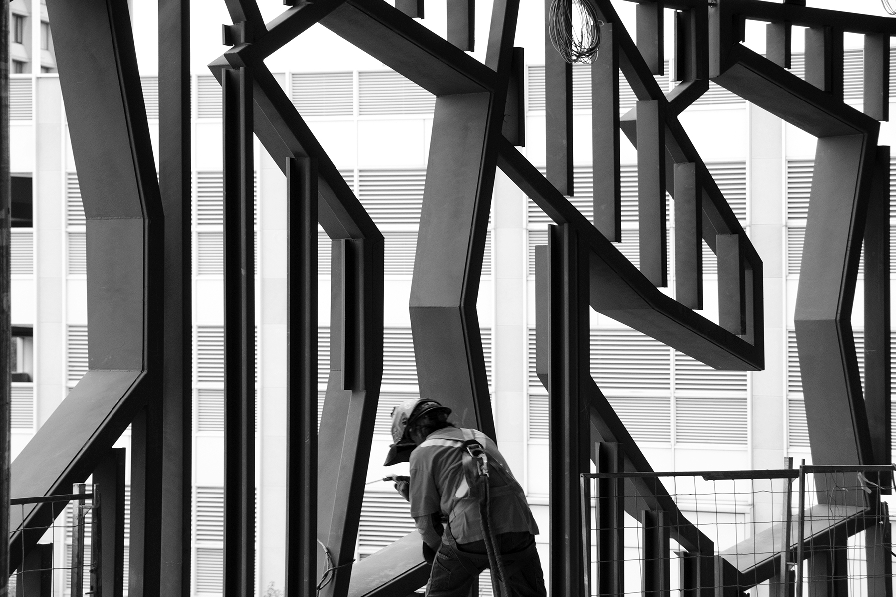 A fabricator installs and adjusts the wall and window framing.